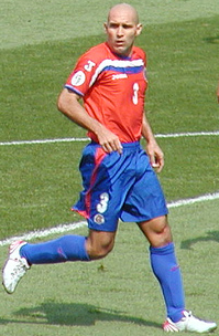 Luis Marín. Image cropped from original at flickr.